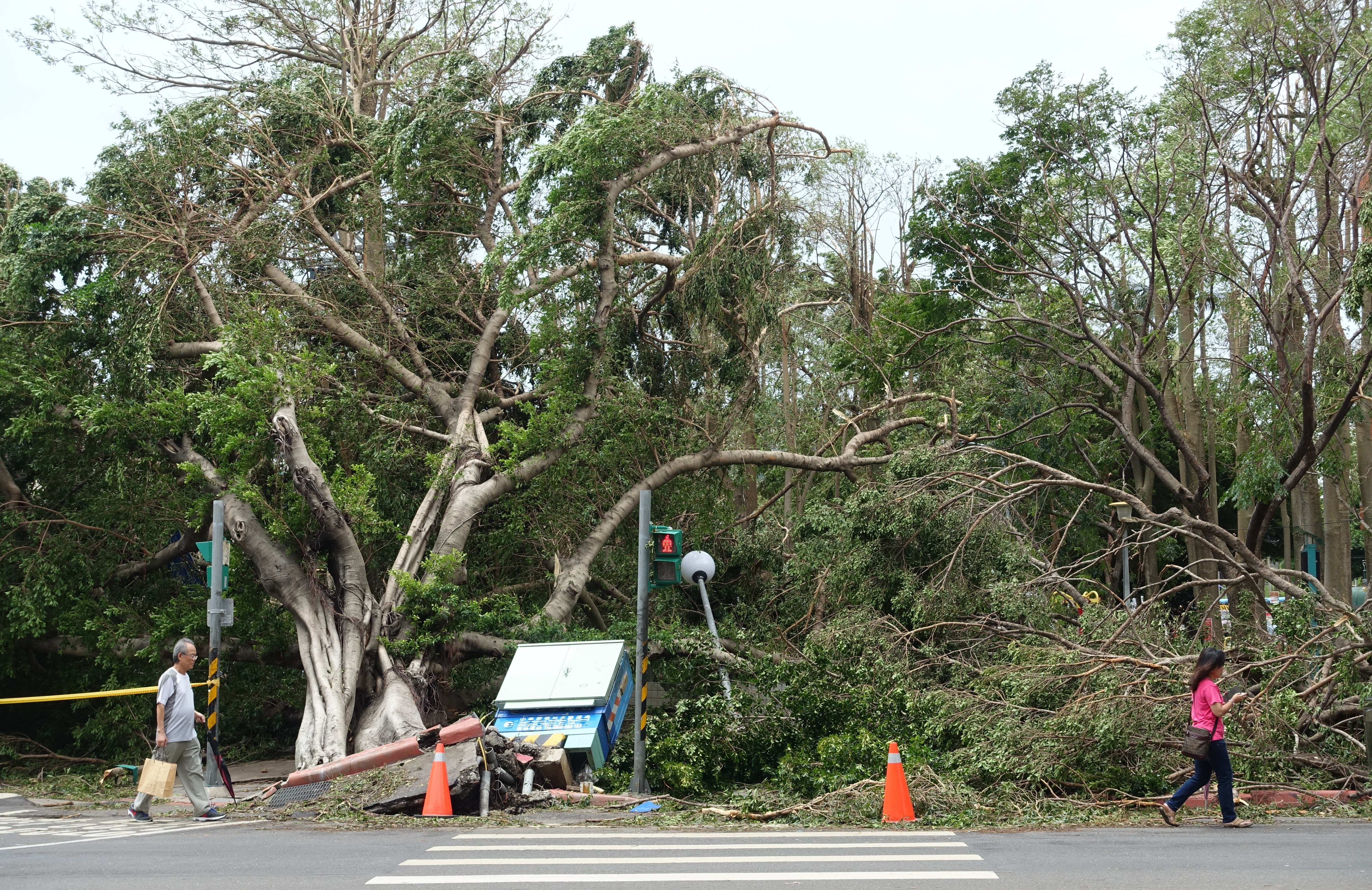 Damage in Taipei following Typhoon Soudelor on August 2015